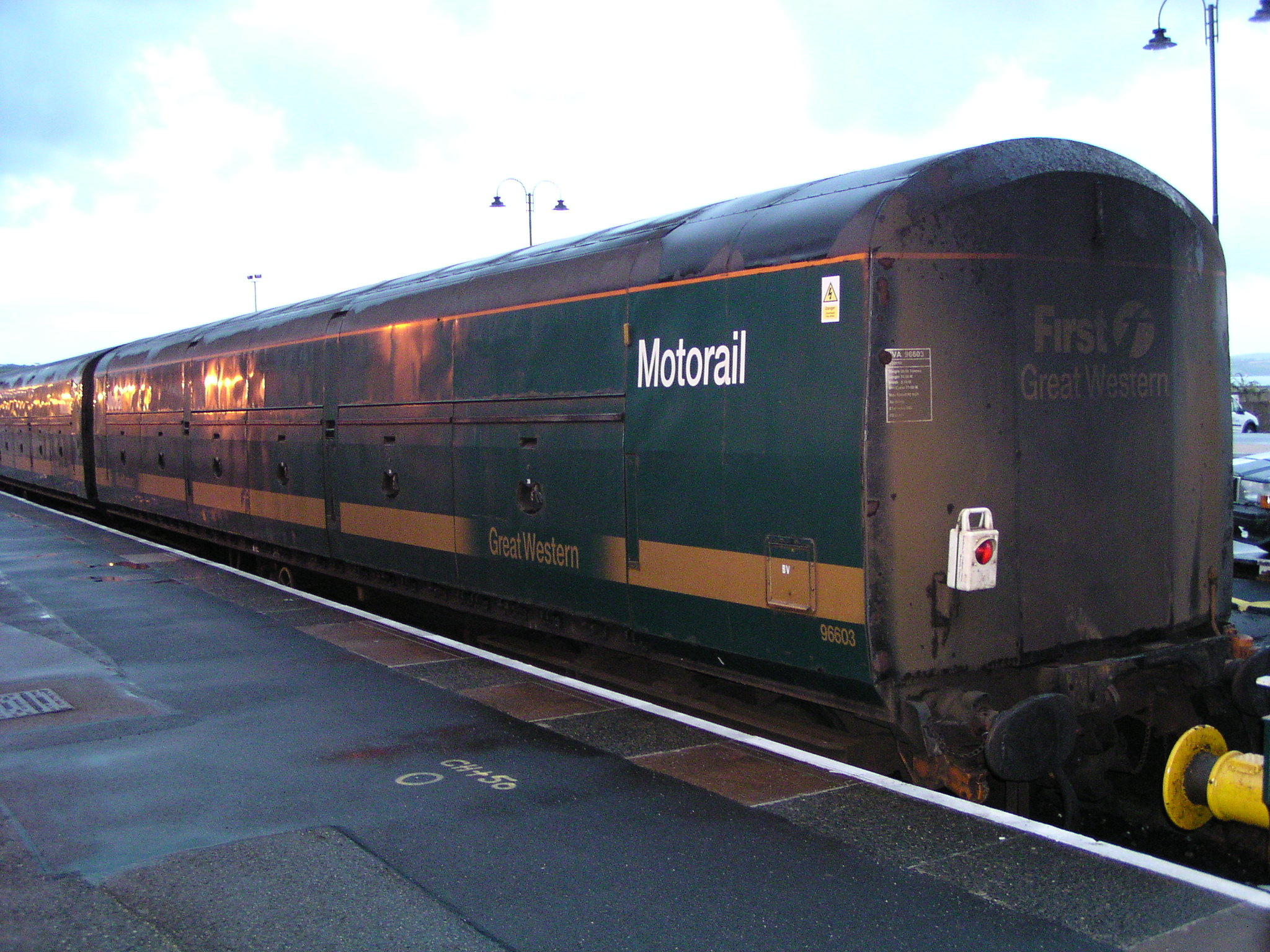 British Rail General Utility Van, NVA 96603 at Penzance on 29th August 2003. This vehicle is a Motorail Van operated by First Great Western in the London Paddington-Penzance "Night Riviera" service. Image by Phil Scott (Our Phellap)